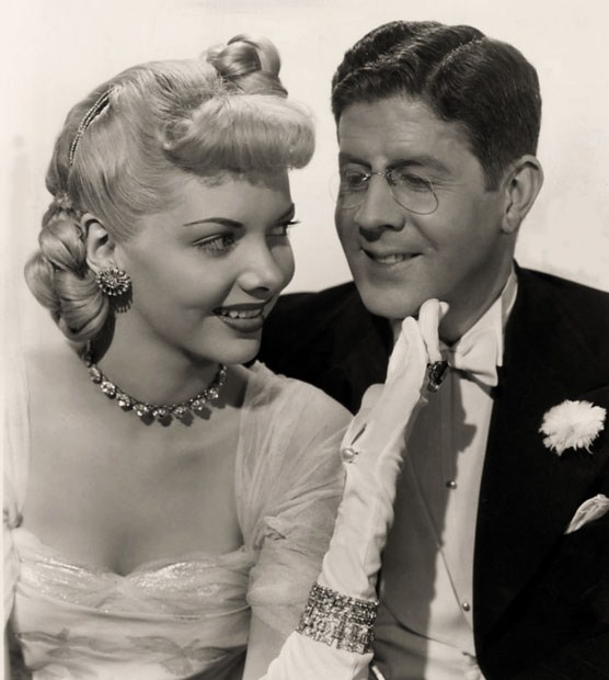 Barbara Lawrence and Rudy Vallee in Unfaithfully Yours (1948) - publicity still